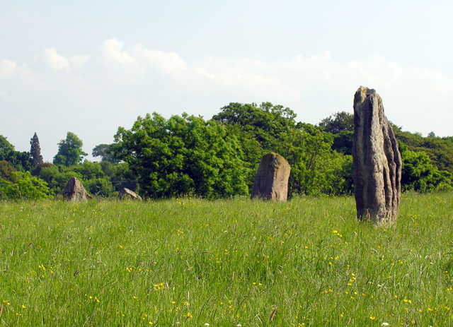 Tuilyies Standing Stones near Torryburn These four stones are said to be the remains of a circle. The name 'Tuilyies' is a corruption of the Scots word 'tulzie' which signifies a fight, and the stones are said to mark the graves of chiefs who fell in an alleged battle here. More information in this article